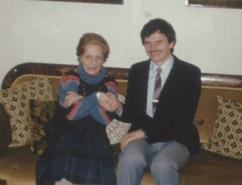 Italian soprano Rina Gigli (daughter of Beniamino Gigli) meets Mr. Torsten Brander, the chairman of Beniamino Gigli Association in Finland.